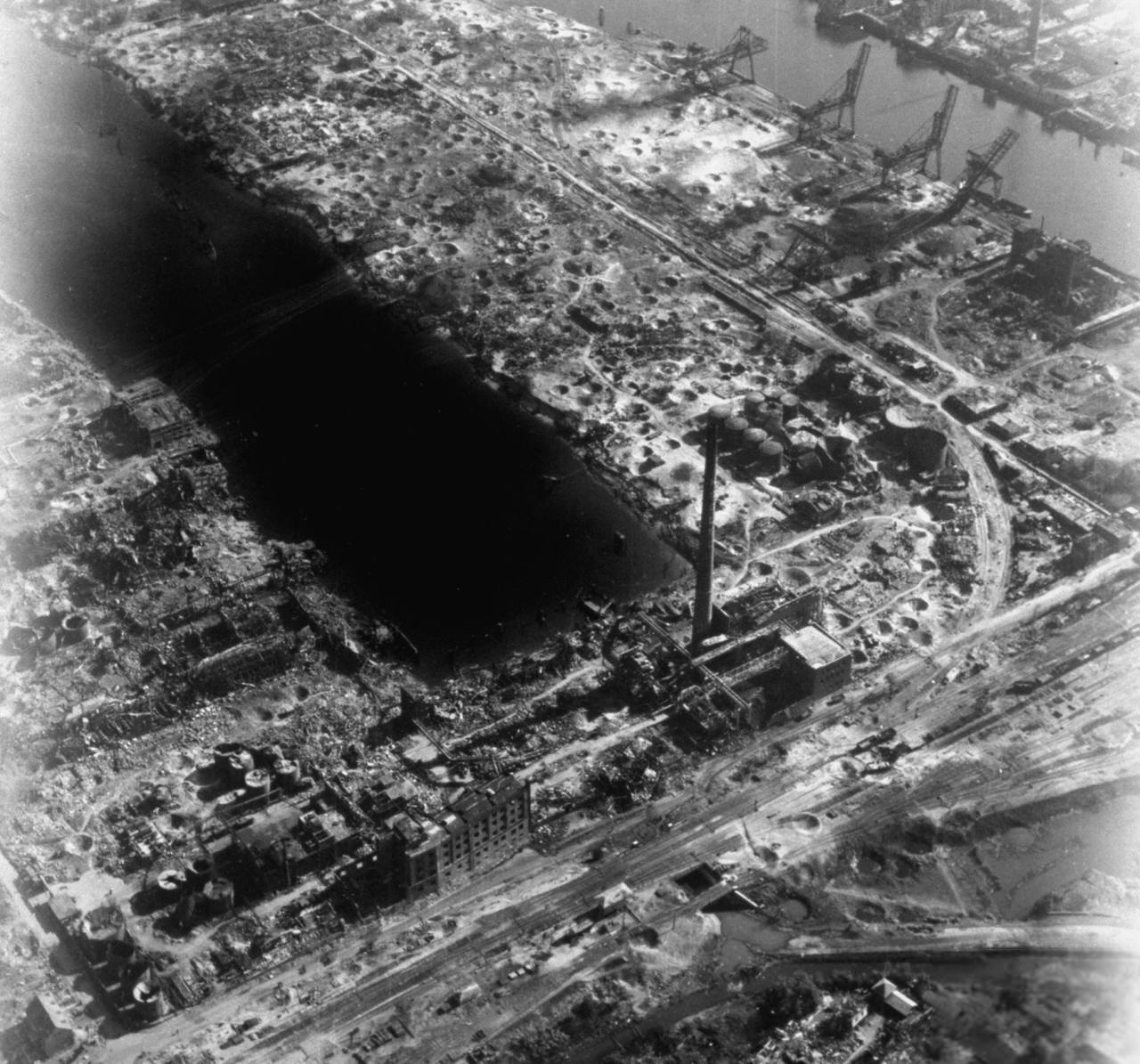 destroyed mineral oil plants at Harburg harbor